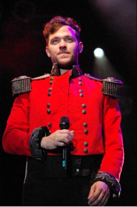 Will Young at the Castle Concerts at Rochester Castle Gardens on 15 July 2011.